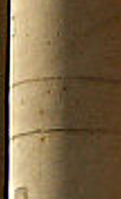 Shrapnel marks on the pillars of the Sheffield City Hall. Damage left during the Sheffield Blitz